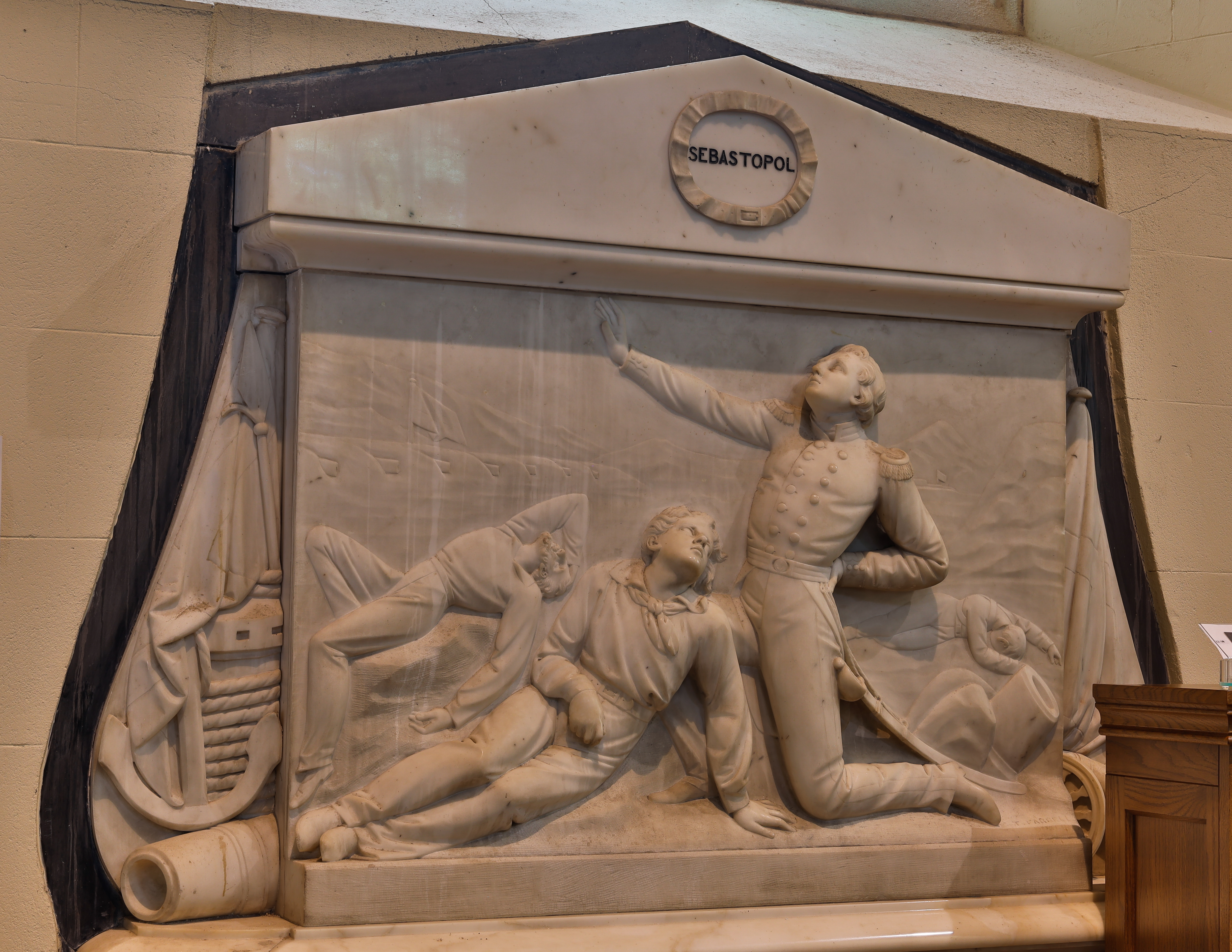 Relief of the monument in memory of Lieut. Thomas Osborne Kidd who died in the siege of Sevastopol on 18 June 1855, sculpted by Thomas Farrell. (See Kevin V. Mulligan, The Buildings of Ireland: South Ulster, p. 106.) Inscription below (see here): Sacred to the memory of Thomas Osborne Kidd R.N. Lieut. of H. M. Ship Albion. (Son of Joseph Kidd Esqre. and Mary Anna his wife,) who fell pierced by a rifle ball whilst serving in the naval brigade, before Sebastopol. In the attack on the Redan on the 18th June 1855, aged 24 years. The circumstances of his death are thus detailed in the official despatch from Capt. Sir Stephen Lushington R.N. to Rear Admiral Sir Edmund Lyons G.C.B. “It is with extreme regret I have to report the death of Lieut. Kidd who fell on the 18th inst. after bringing the remains of his party safely into the trenches, he again returned to the open to recover some wounded men, and in this gallant act of devotion to his duty he was shot through the body by a rifle ball, and died shortly after reaching the camp. Lieut. Kidd was an honour to the brigade, and Her Majesty's service has lost one of its most promising young officers” This monument is erected by the inhabitants of Armagh, to record their grief for his early death and their admiration of the last act of his brief but distinguished career. Wikidata has entry Q2942532 with data related to this item.